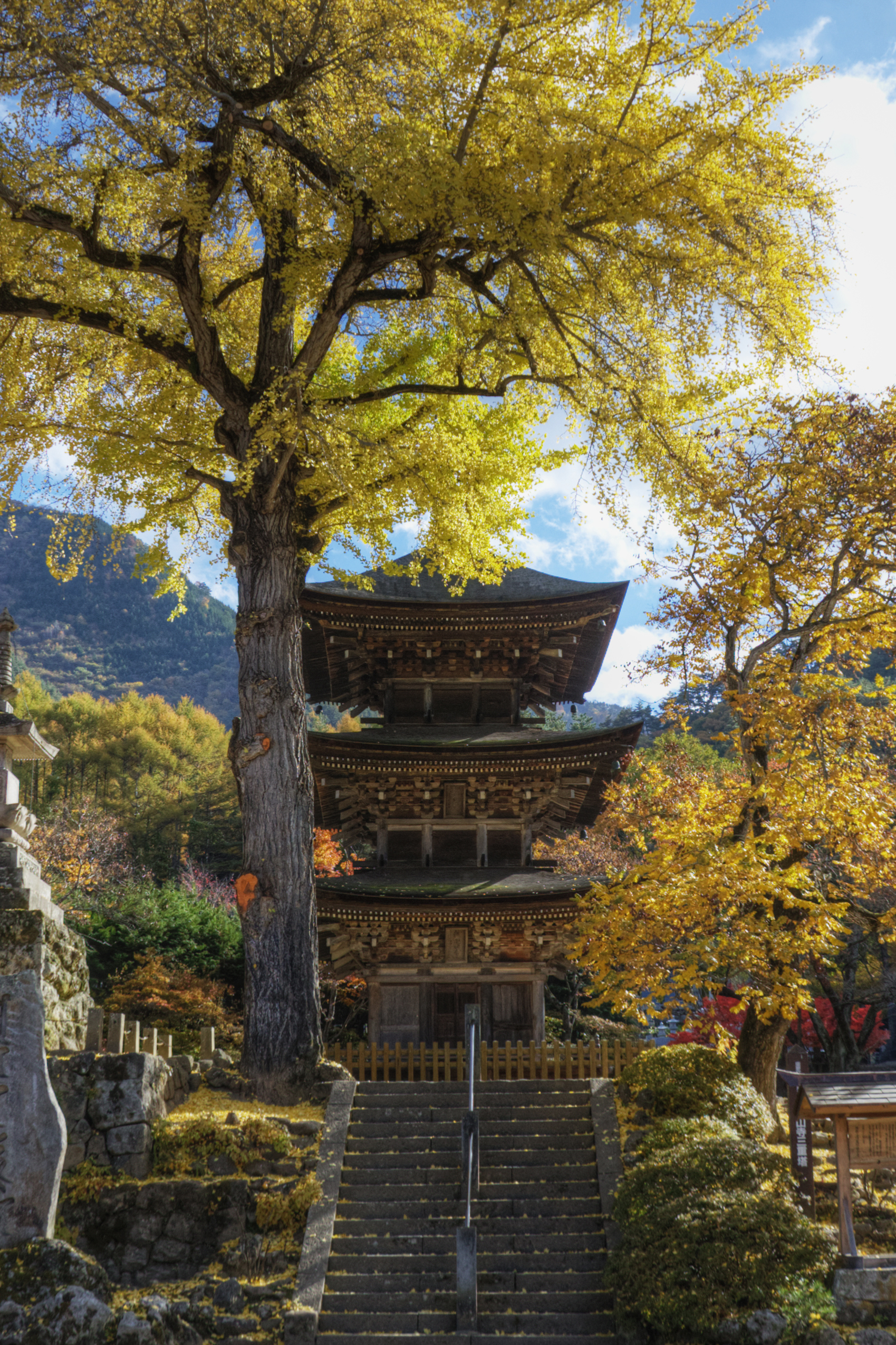 2012年11月10日、長野県上田市にある前山寺の三重塔と黄葉。 国の重要文化財であり、「未完成の完成の塔」とも呼ばれる前山寺の塔。 窓や回廊などがなく、一般的には未完ではあるけれども、塔として必要最小限の構造のみで"完成されている"ため、そう呼ばれる事もあるそうです。 不自然さなどなく、周囲の風景と見事に調和していました。 11/10/2012, A pagoda in Zenzanji-temple in Ueda, Nagano, Japan, with fallen leaves. This pagoda is called an unfinished but finished pagoda. It doesn’t have any window, corridor, etc, but it does have the minimum of what a Buddhist pagoda must have. Because of that people call it so. The pagoda stands in perfect harmony with its surroundings.